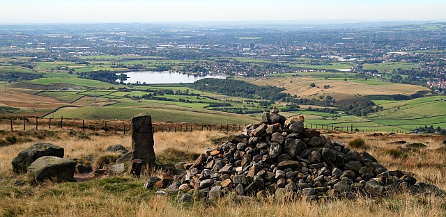 The Aiggin Stone and Cairn on Blackstone Edge Moor, overlooking Rochdale and Littleborough in Greater Manchester, England. Hollingworth Lake and Country Park can be seen south of Littleborough.